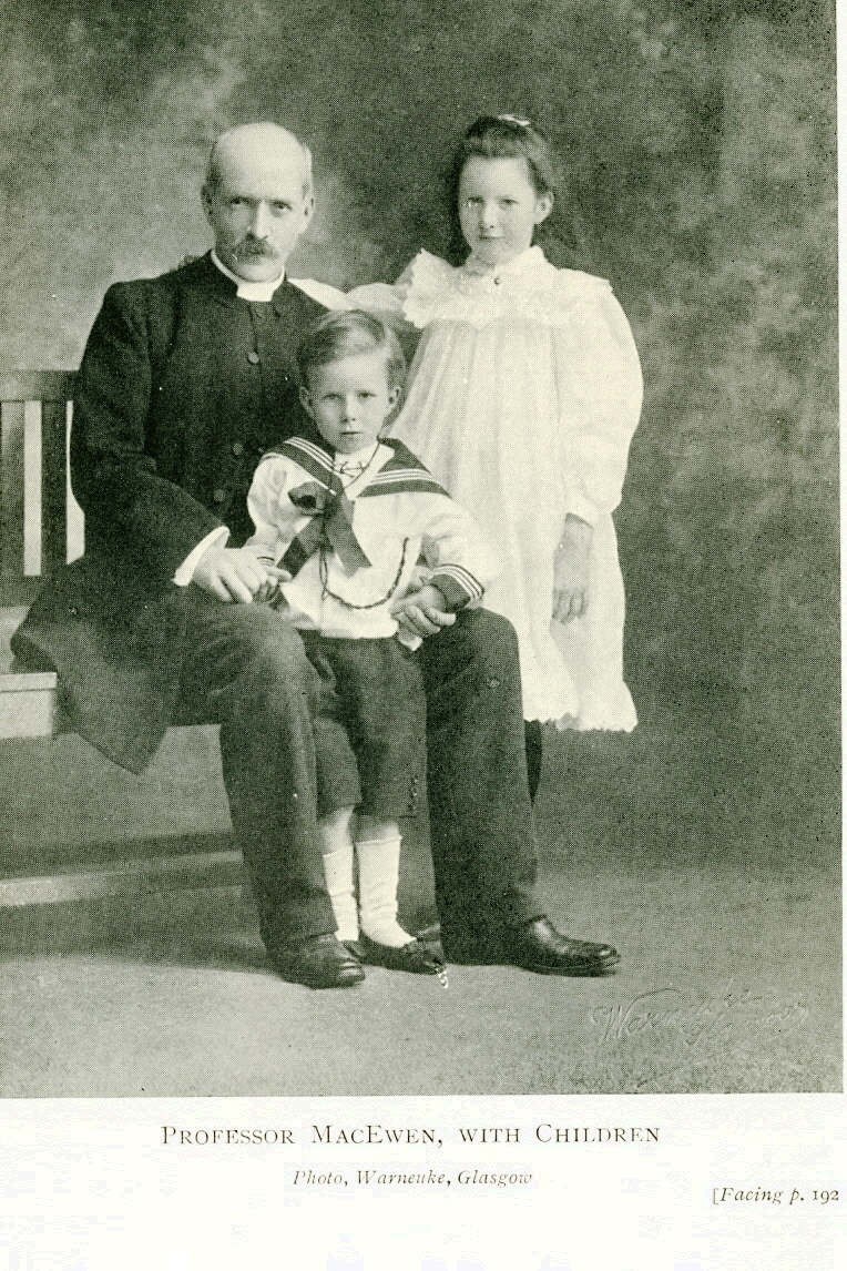 This photo is taken from A.R. MacEwen's biography: Life and times of Alexander Robertson MacEwen, D.D and is only to be use in his Wikipedia biography. The book is long out of copyright and is in the public domain